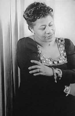 Ella Fitzgerald, 19 January 1940